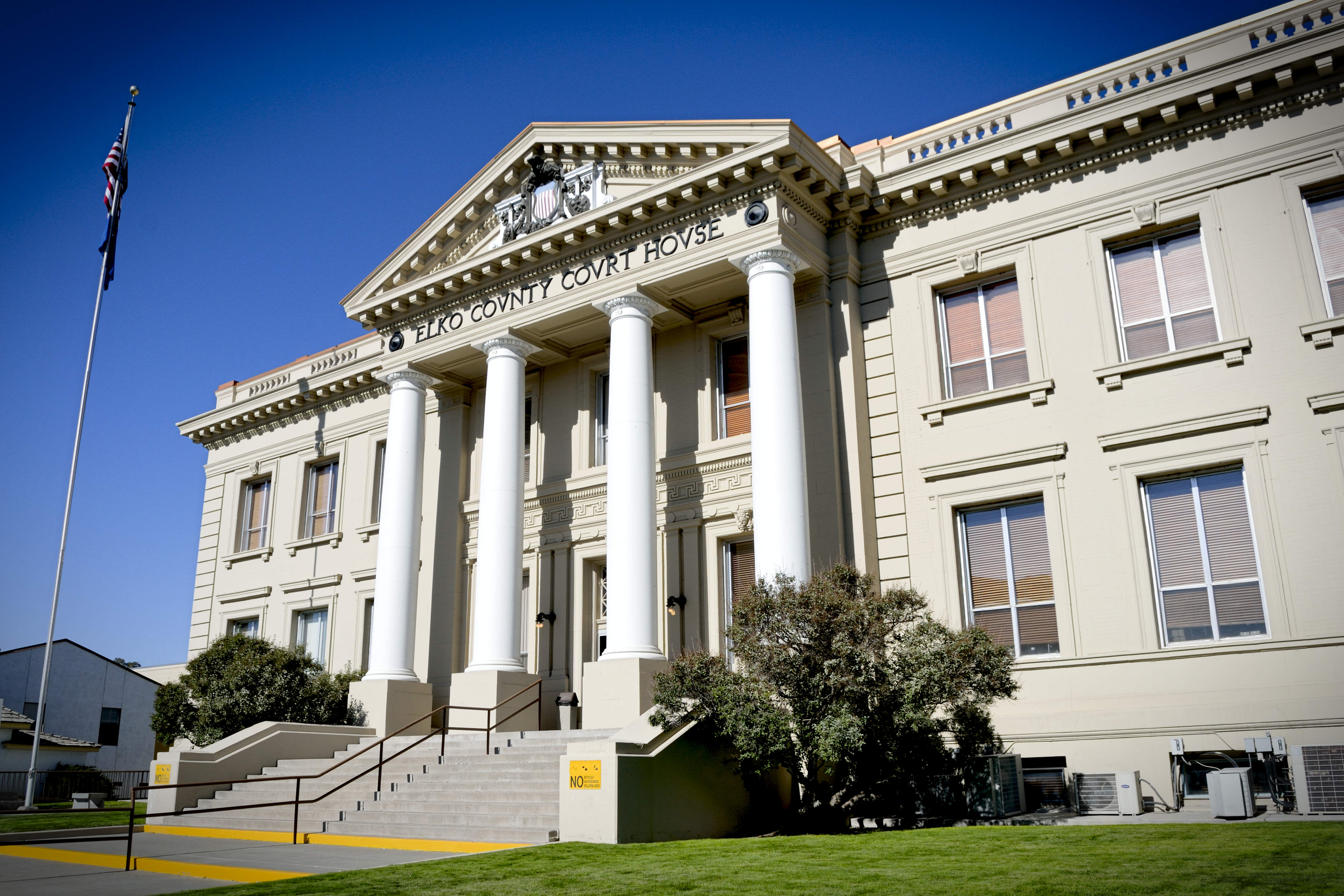 Facade of the Elko County Courthouse — in Elko, Nevada.